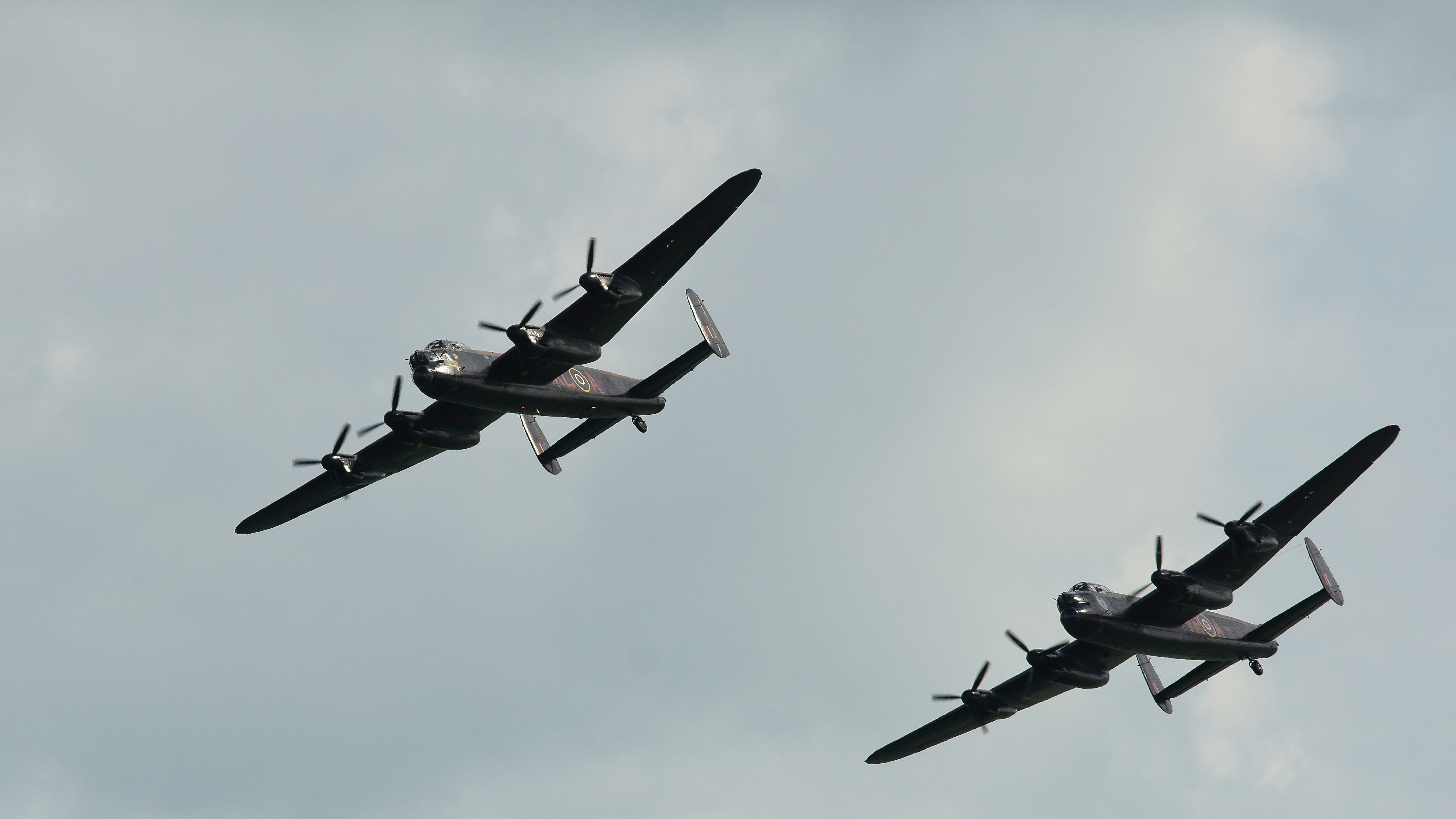 The late summer of 2014 sees two Lancasters flying together for the first time since 1964.